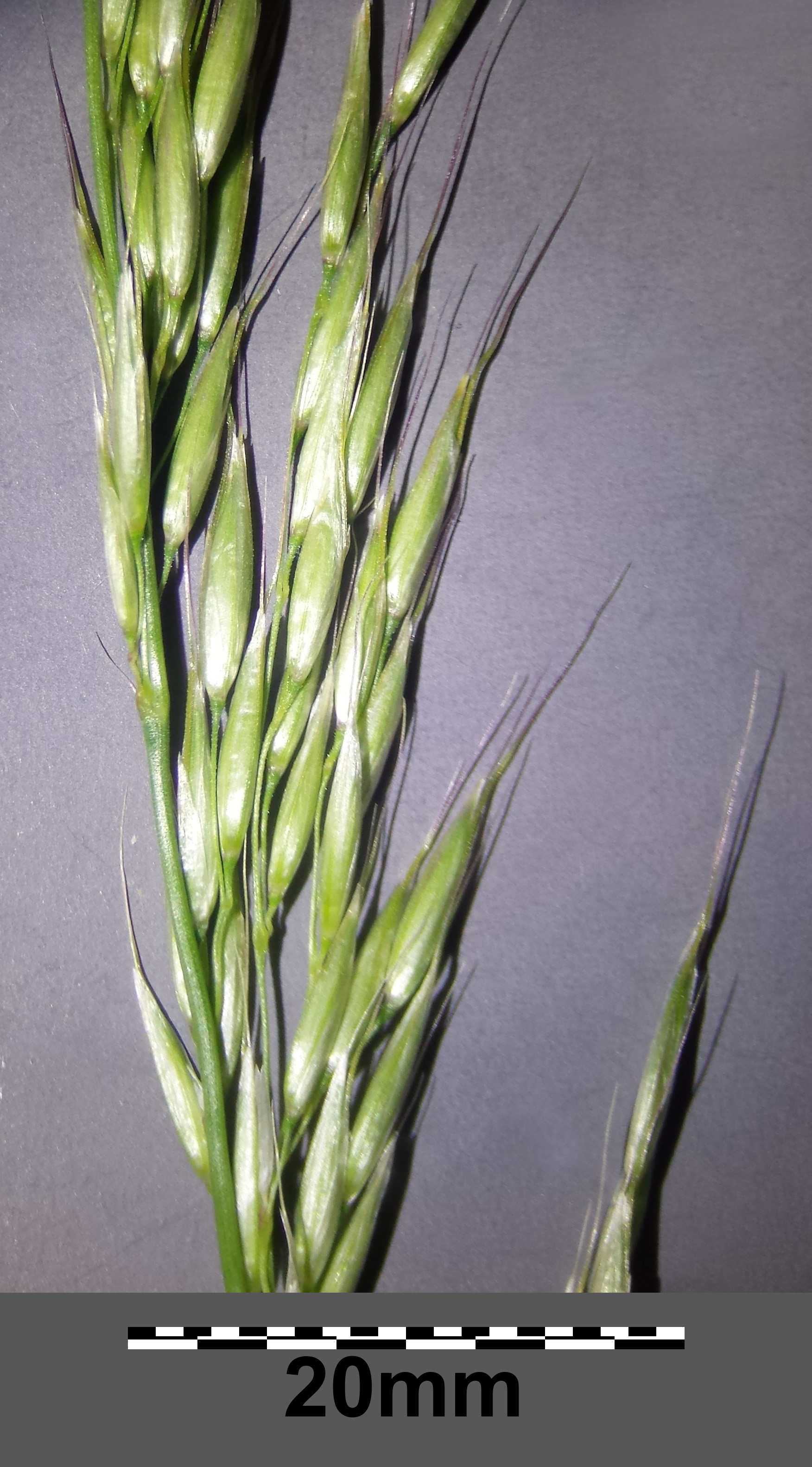 Panicle (detail) Taxonym: Arrhenatherum elatius ss Fischer et al. EfÖLS 2008 ISBN 978-3-85474-187-9 Location: Marchfeldkanal near Groß-Jedlersdorf, Wien-Floridsdorf - ca. 160 m a.s.l. Habitat: fallow land